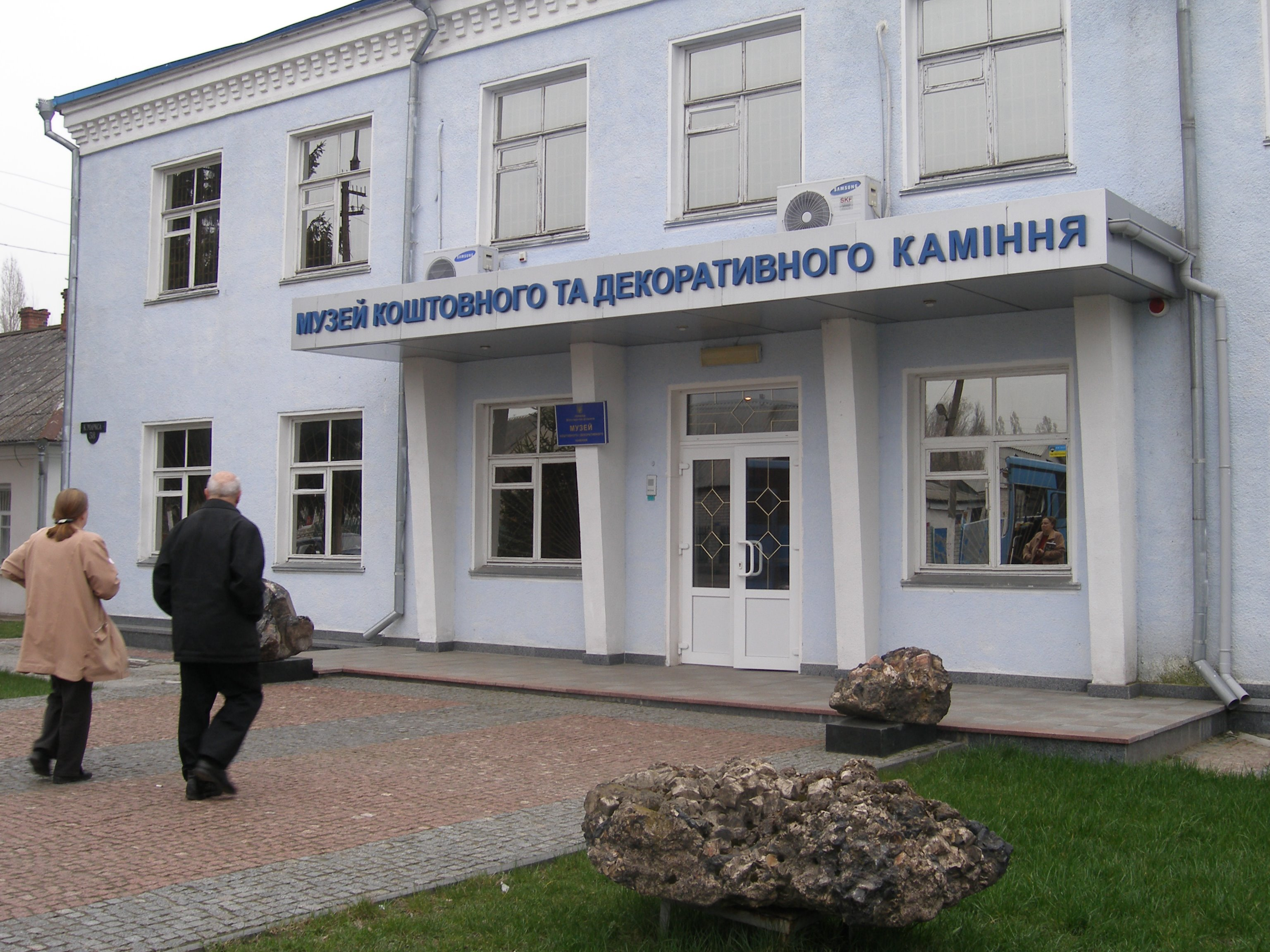 Museum of gem and mineral stones in Volodarsk-Volynsky, Zhytomyr region, Ukraine